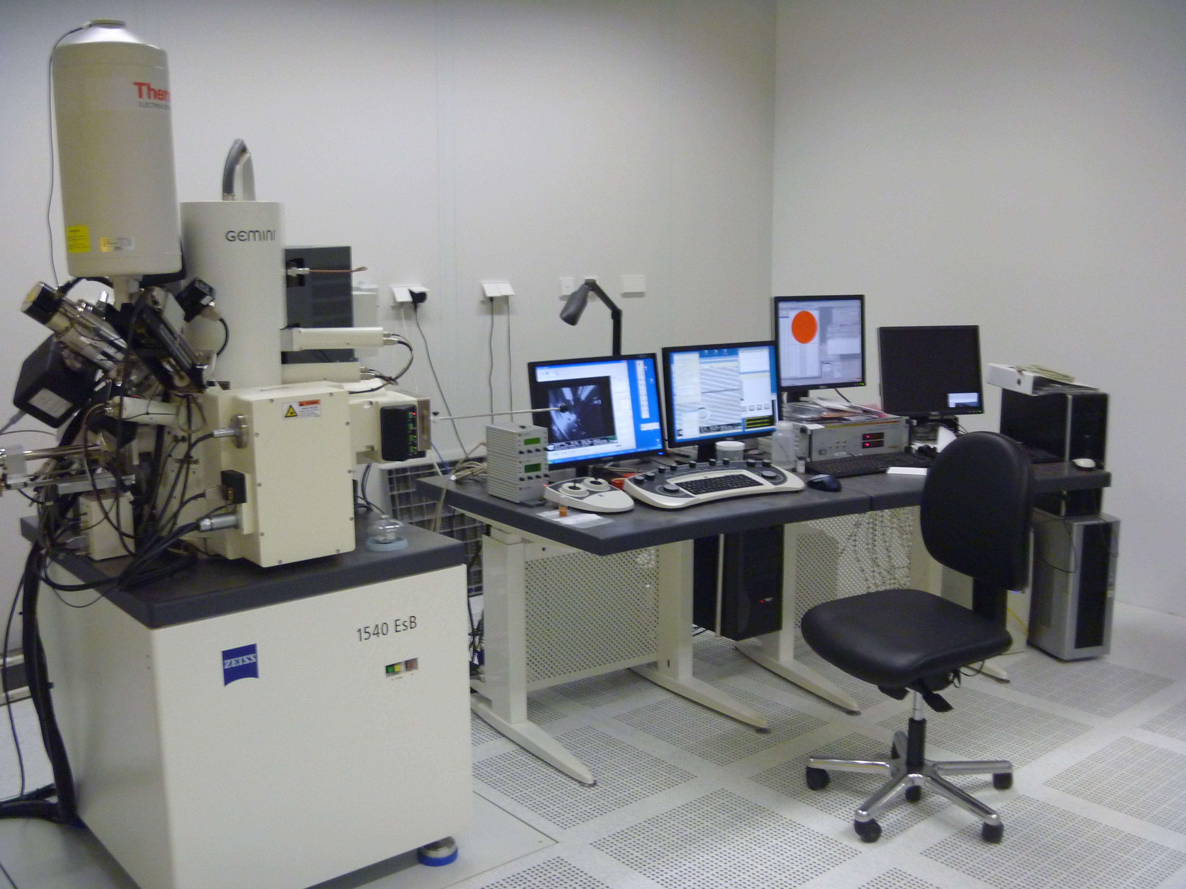 Focuses Ion Beam 1540 EsB (Zeiss),with EDX and lithography equipment.